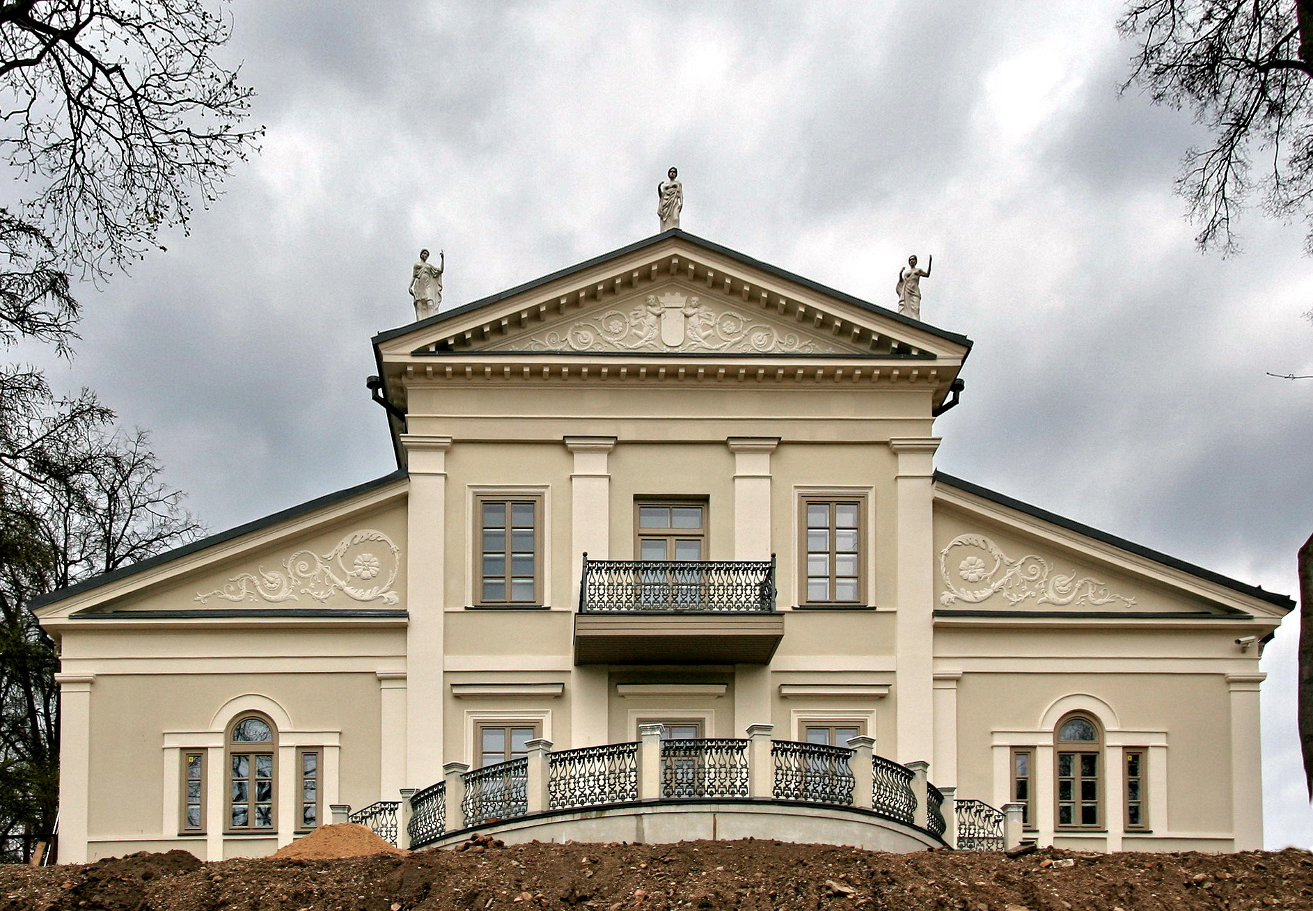 Tuskulenai manor in 2008